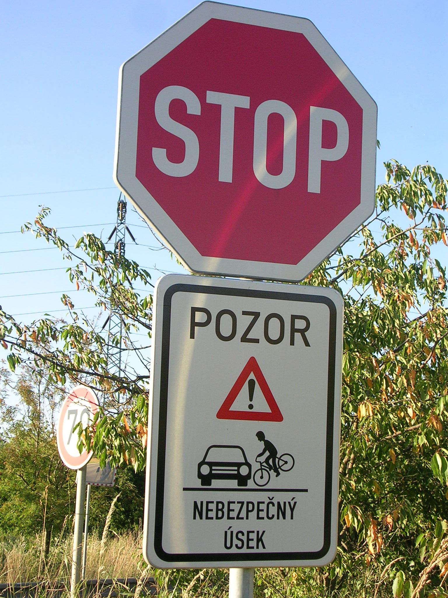 Prague and Horoměřice, the Czech Republic. Road sign.